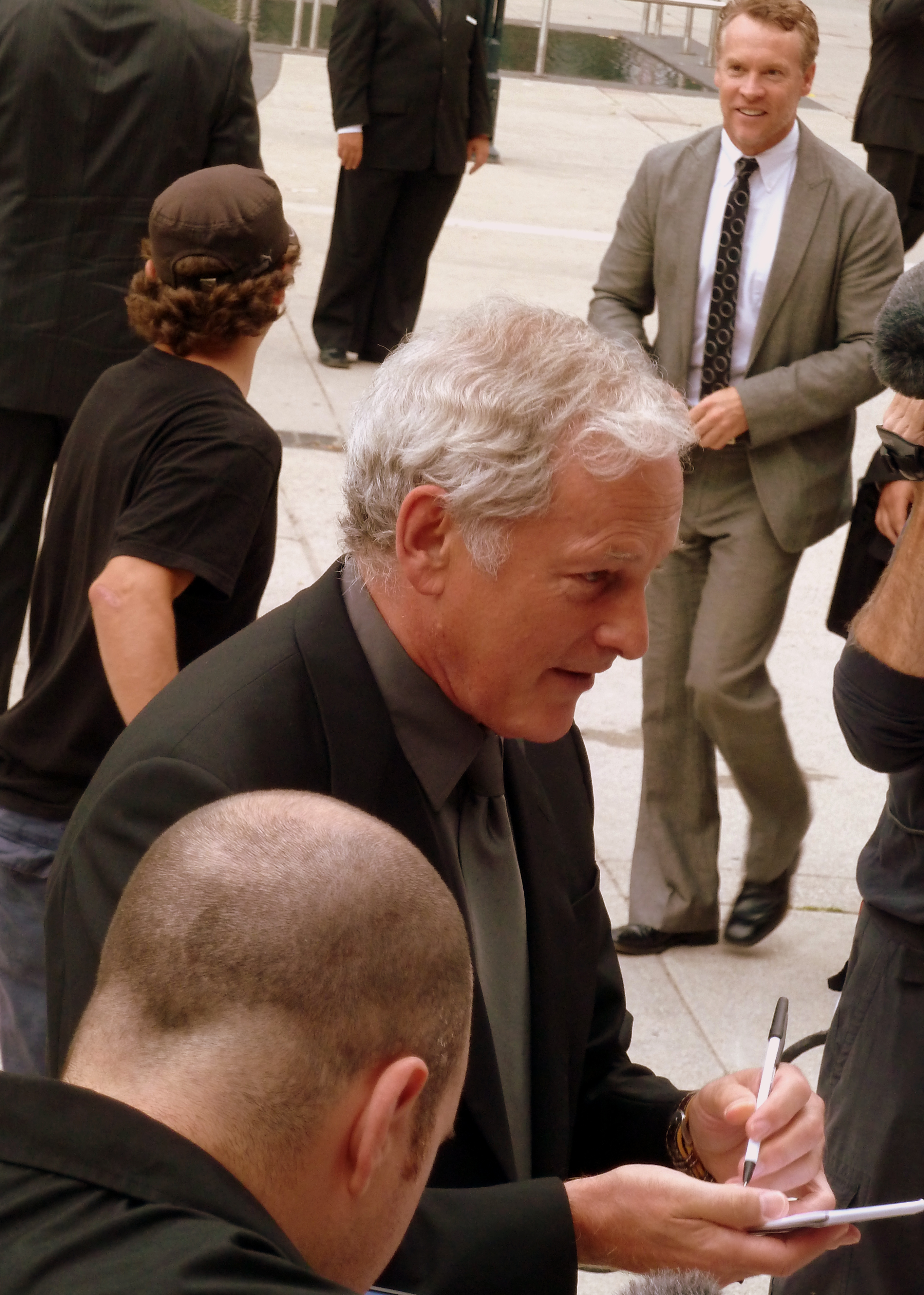 Victor Garber at the premiere of Argo, Toronto Film Festival 2012. With some Tate Donovan in the background.